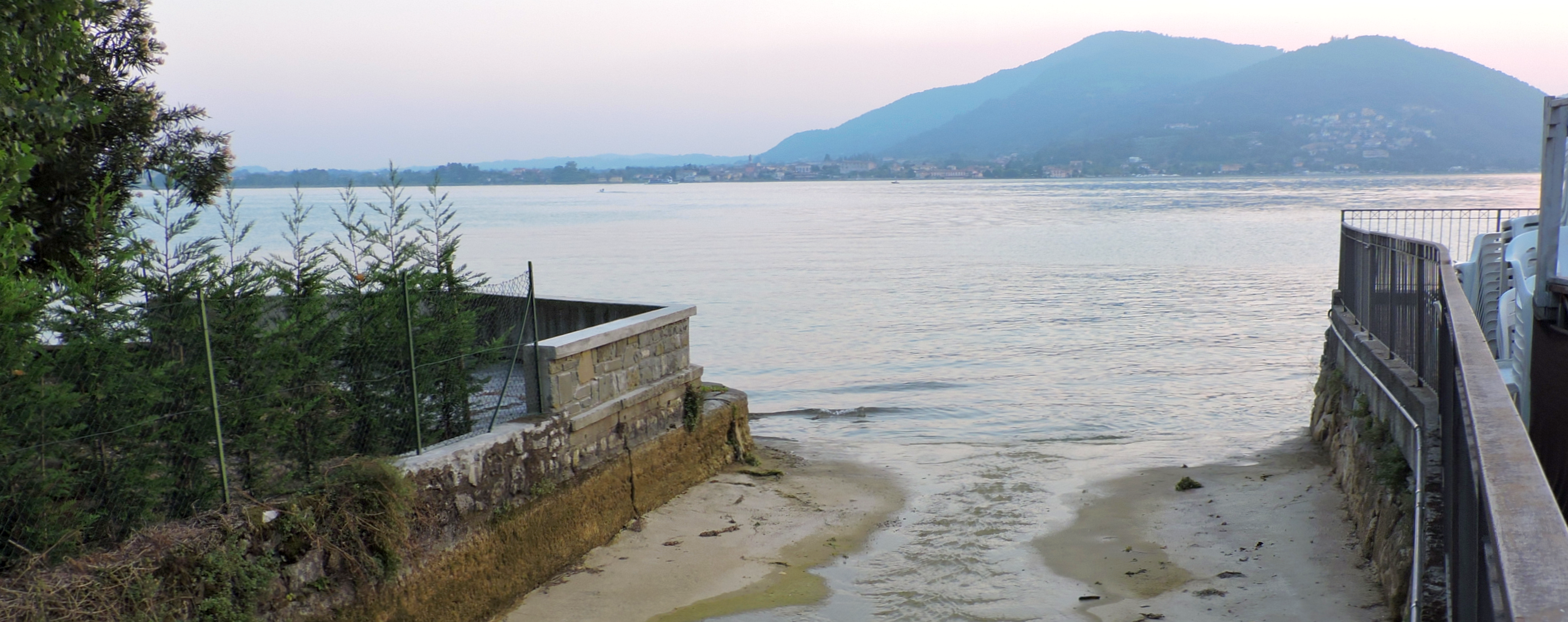 Torrente Rino at Predore: mouth in the Lake Iseo (BG, Italy)